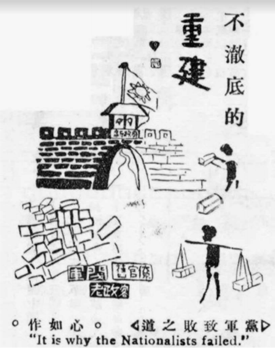 A poster published in Beiyang Huabao (Beiyang Pictorial News) on August 27, 1927, issue No. 116. The Chinese text says "Incomplete Reconstruction", and is intended to attack the Chinese Nationalist Party (Kuomintang) in favor of the reconstruction presented by the Fengtian clique and Anguojun. The Kuomintang's new city walls are crumbling because they use bricks with the names of "warlords, old bureaucrats, and old politicians".